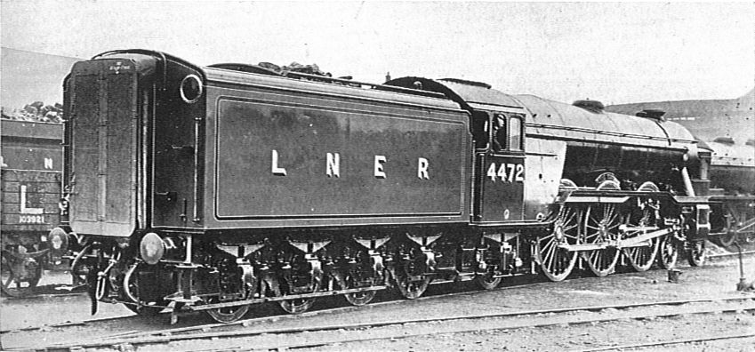 LNER "Pacific" Locomotive Fitted with Corridor Tender for working non-stop"Flying Scotsman" between London and Edinburgh